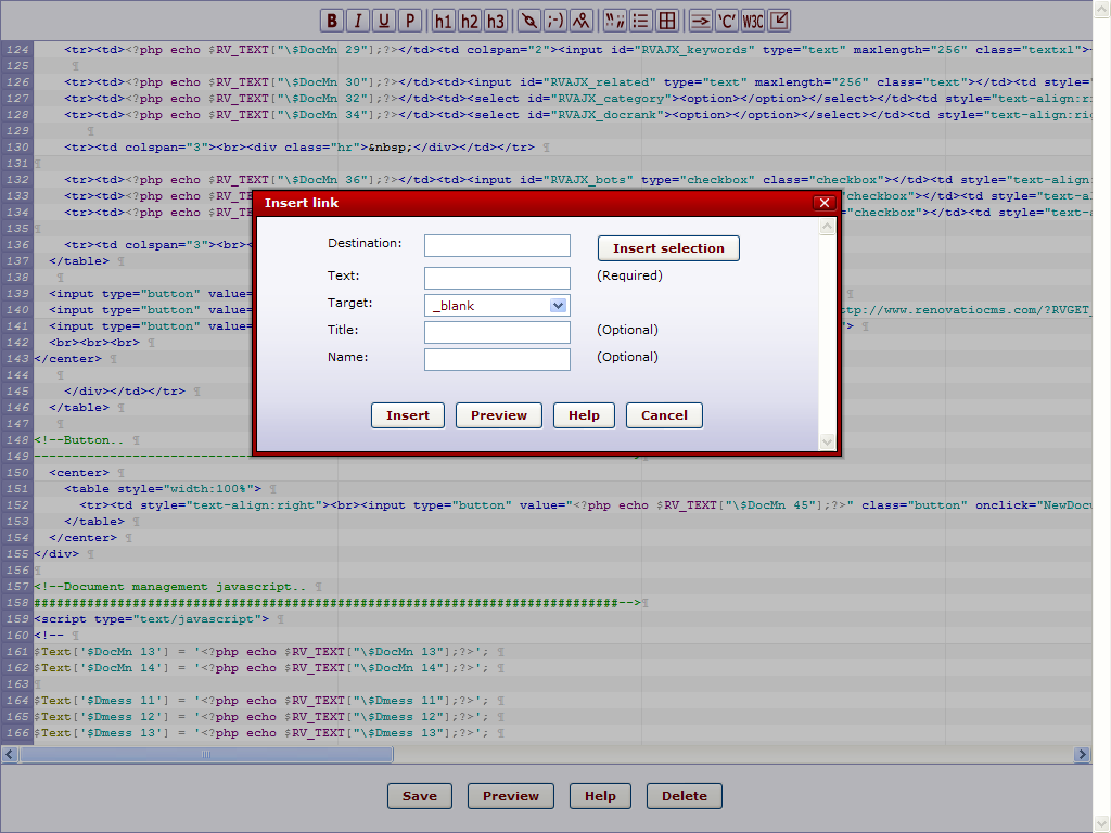 The RVCodeEditor is a part of RenovatioCMS. It enables you to edit the php, sql, html, java script and css source code of your RenovatioCMS documents.